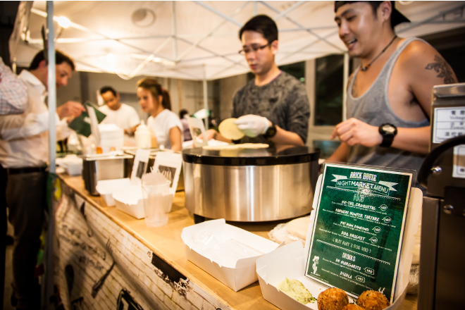 The night market consists of booths displaying design products of local artists, live performances by children and local signers. There are food stalls selling extraordinary food including cupcakes, wedding cookies and artisan bread, they could be instantly made according to customer's requests.